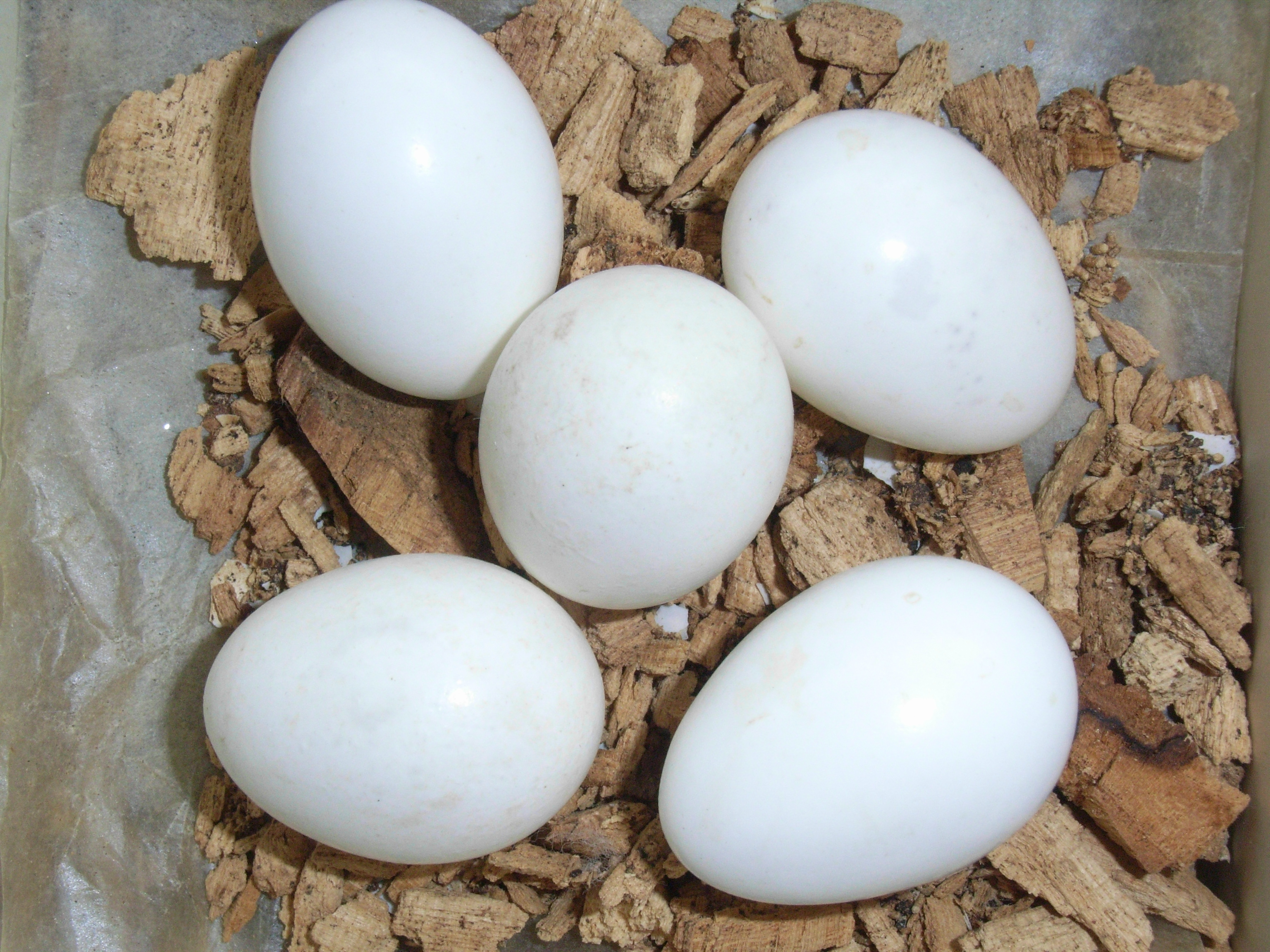 Picus viridis eggs.